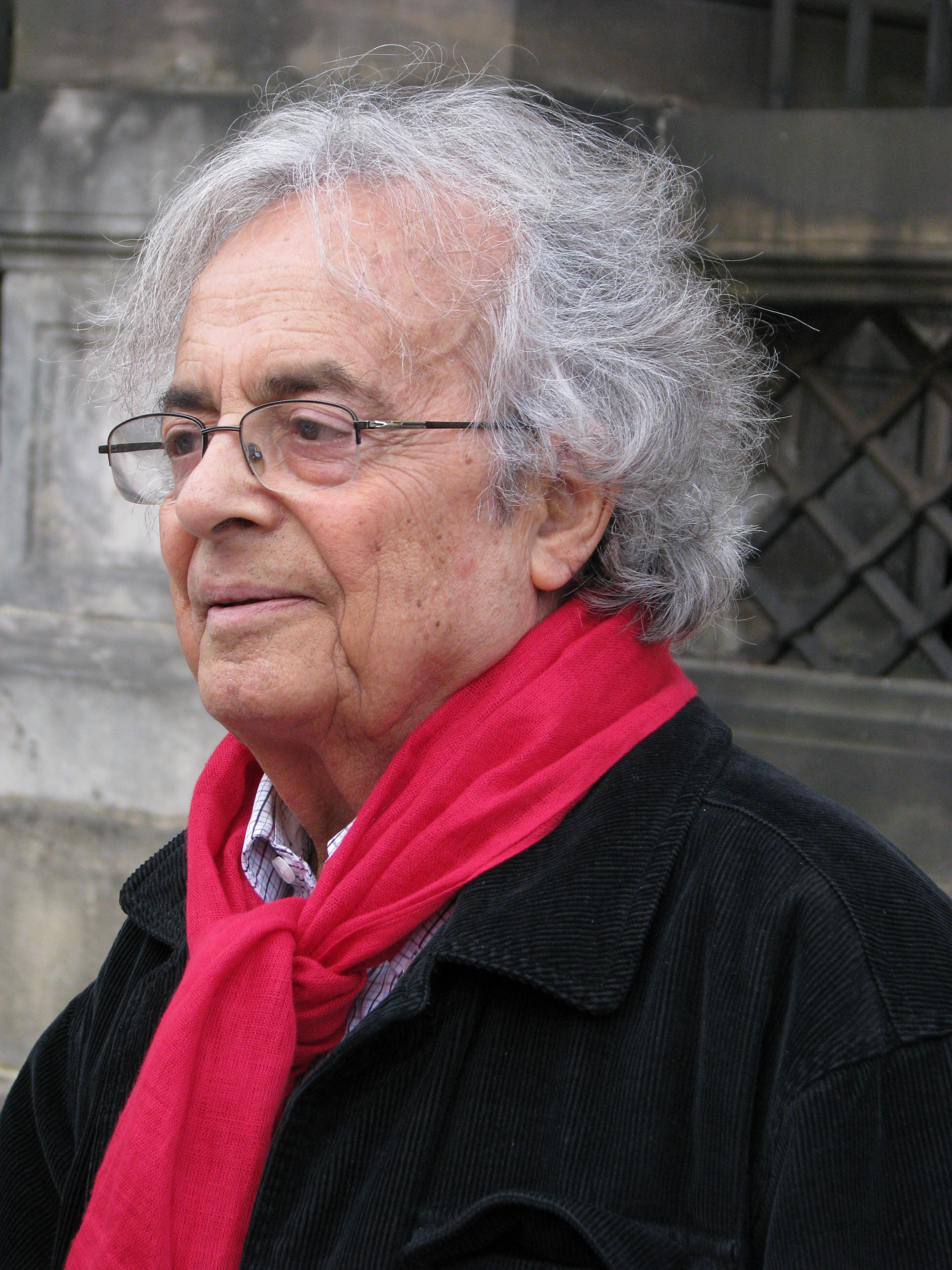 Adonis (Ali Ahmad Said Esber, born 1 January 1930), is a Syrian poet, essayist, and translator. He lives in France.